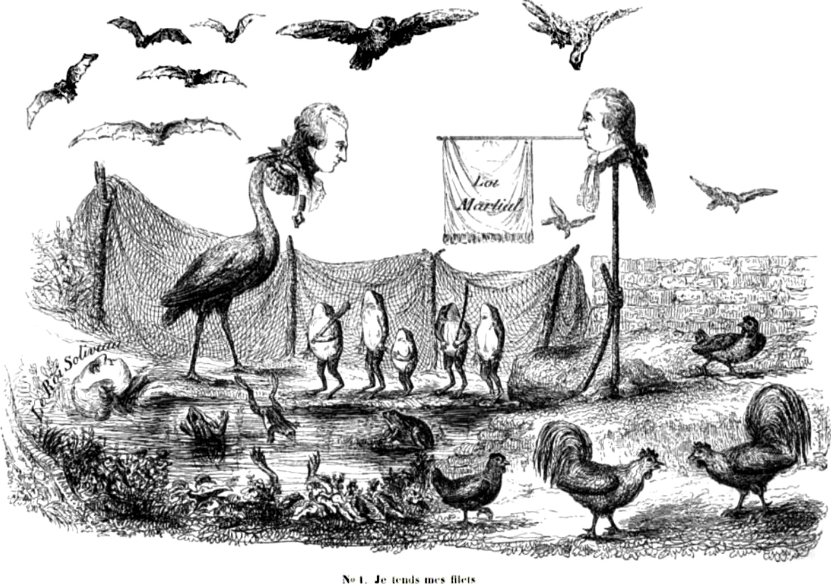 Le Roi Soliveau: the Frogs Asking for a King (1791). Bailly carries the flag of of martial law; Lafayette: “Je tends mes filets.”